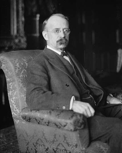 Edward Henry Harriman (1848 – 1909), President of the Southern Pacific Company, and of the Union Pacific Company, seated photo portrait.